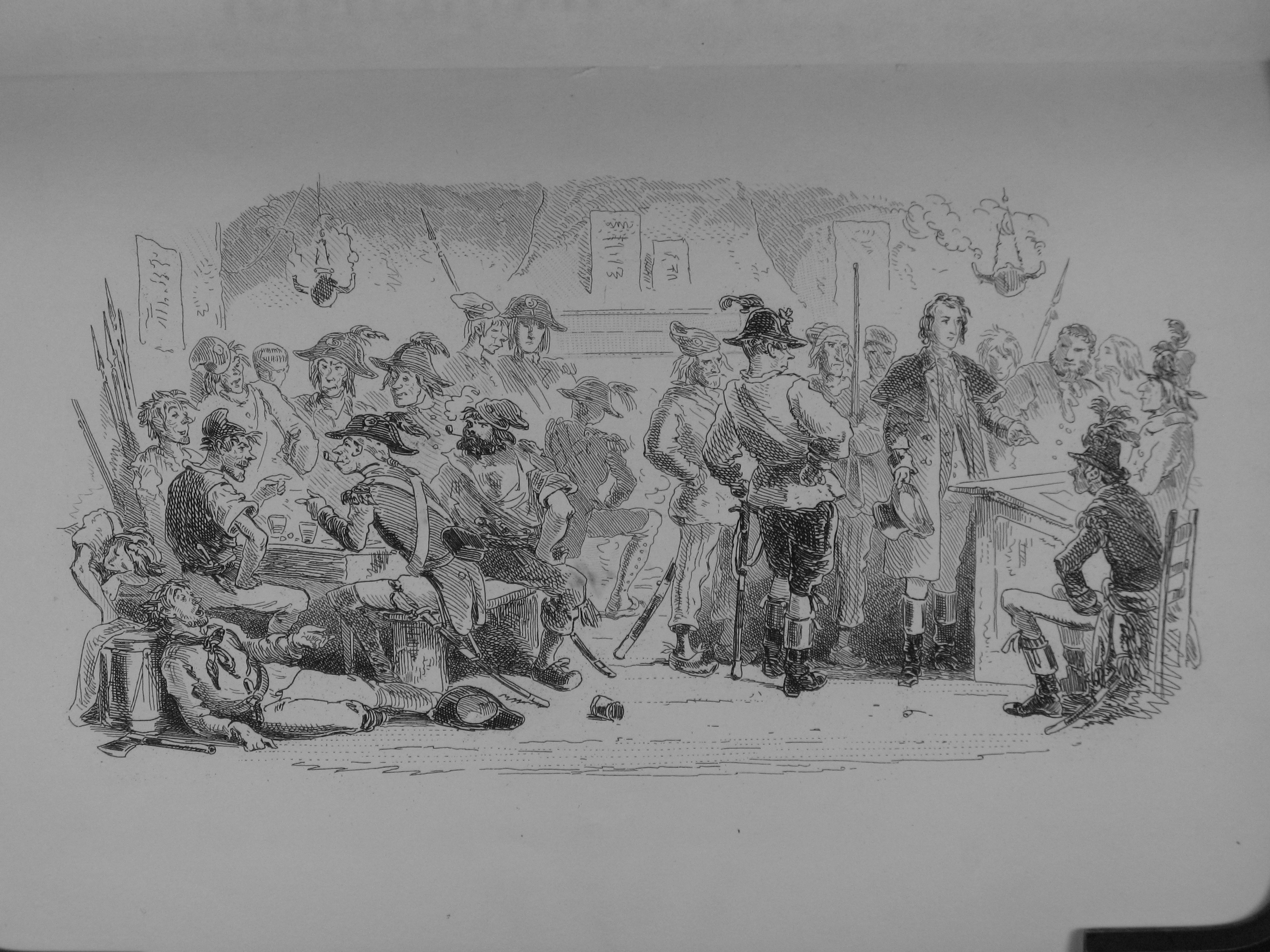 A photograph of an engraving in The Writings of Charles Dickens volume 20, A Tale of Two Cities, titled "Before the Prison Tribunal".